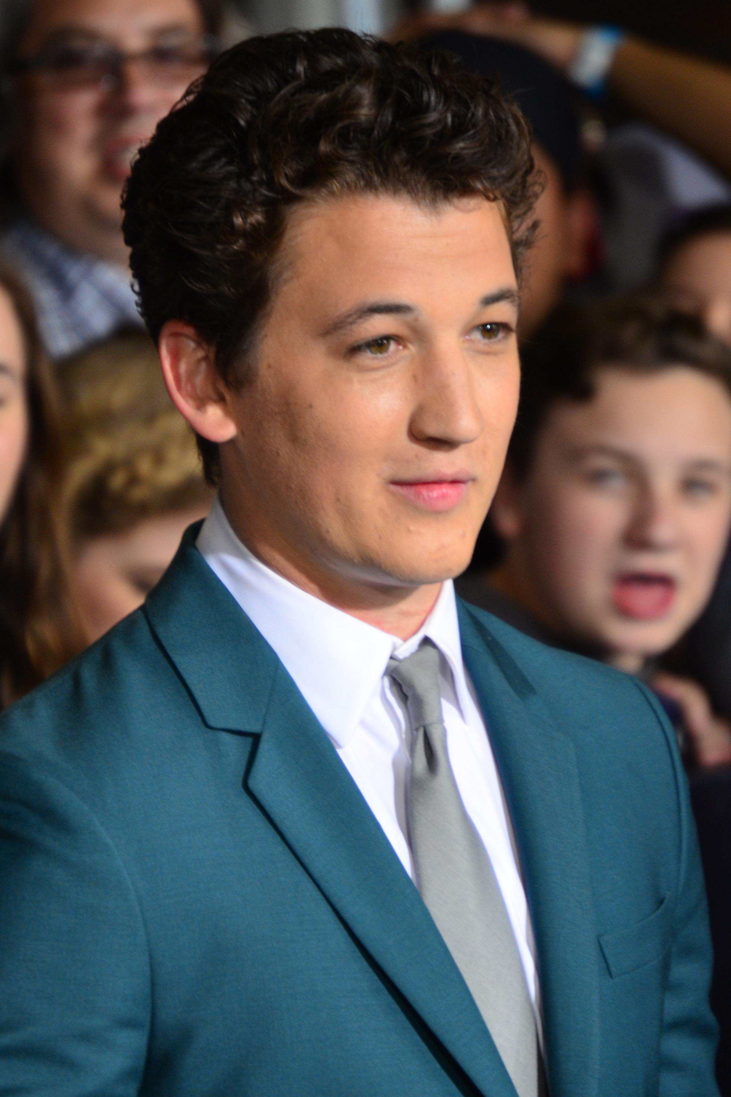 Miles Teller at the film premiere of "Divergent" in California on March 18, 2014